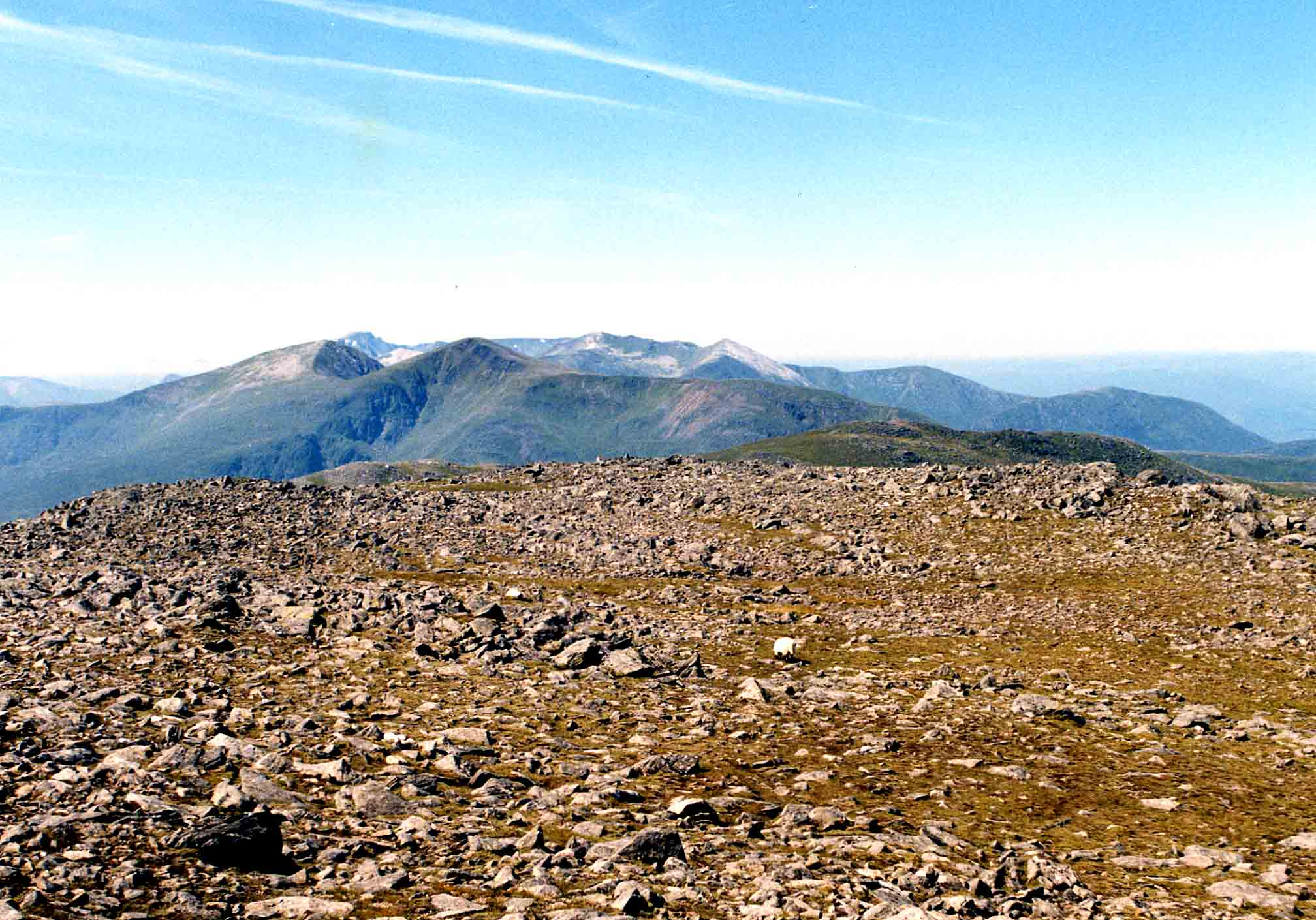 View from summit of Chno Dearg